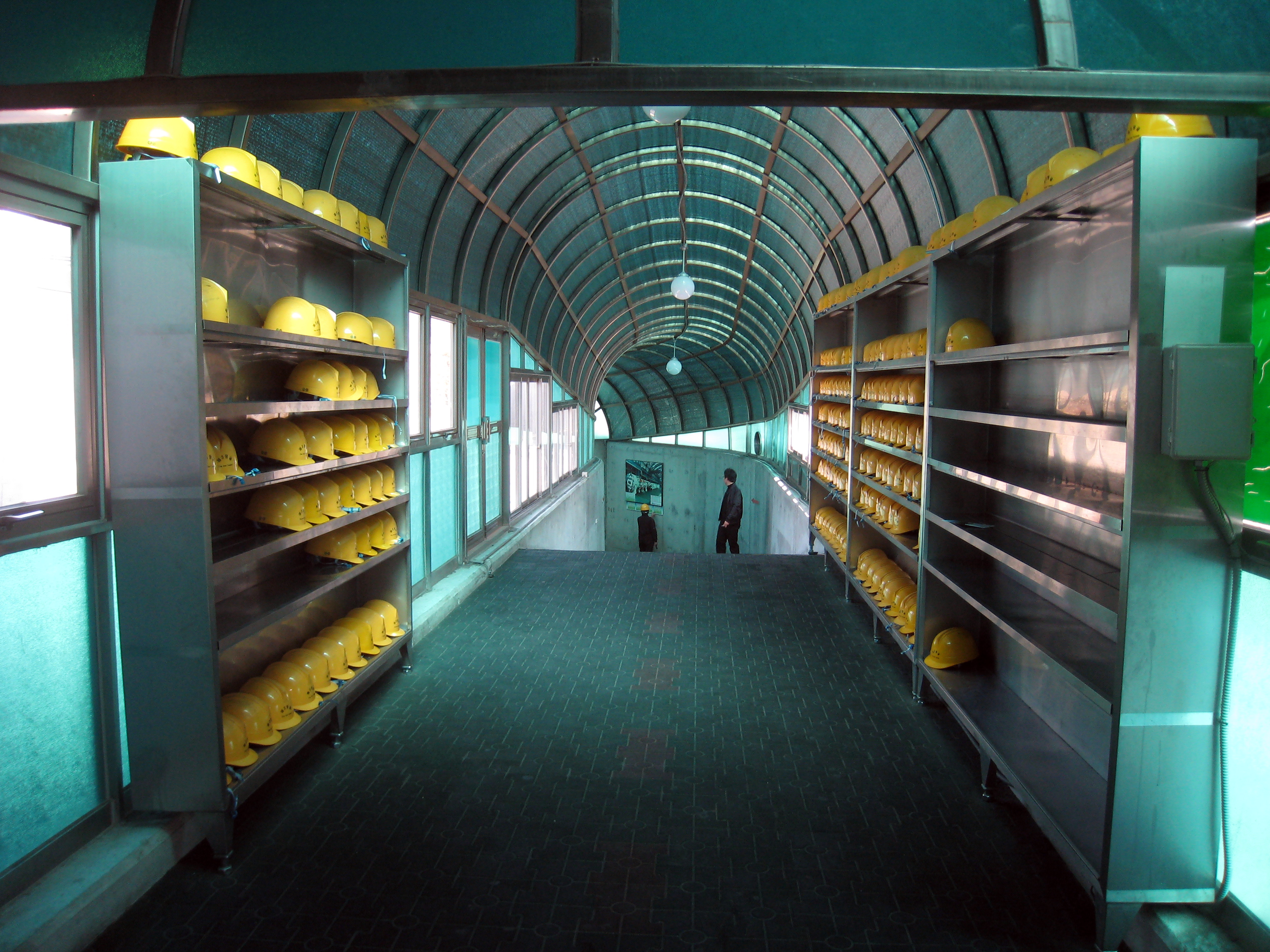 The Third Tunnel of Aggression, located between North Korea and South Korea.